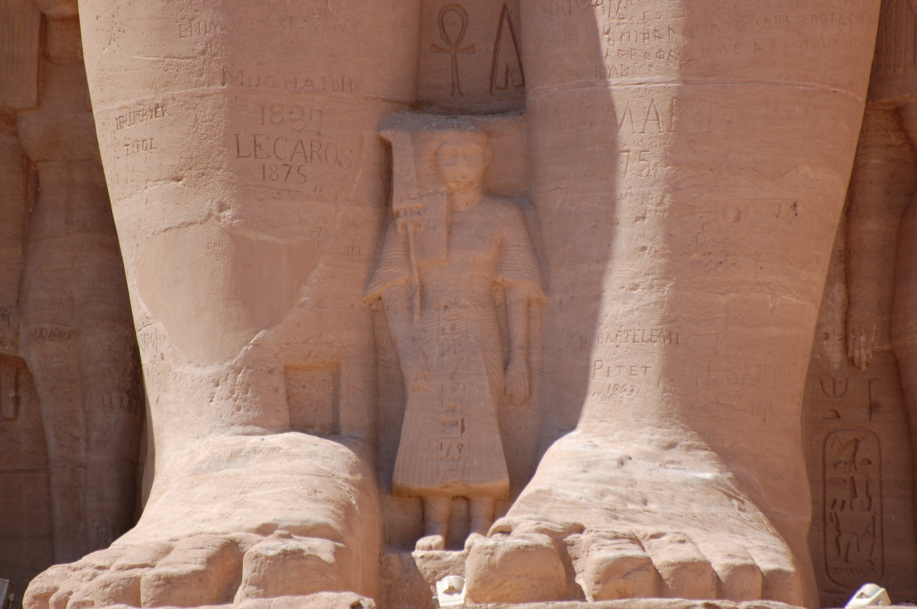 Statue of Prince Amunherkhepshef between Ramses's legs at the temple of Ramses II.